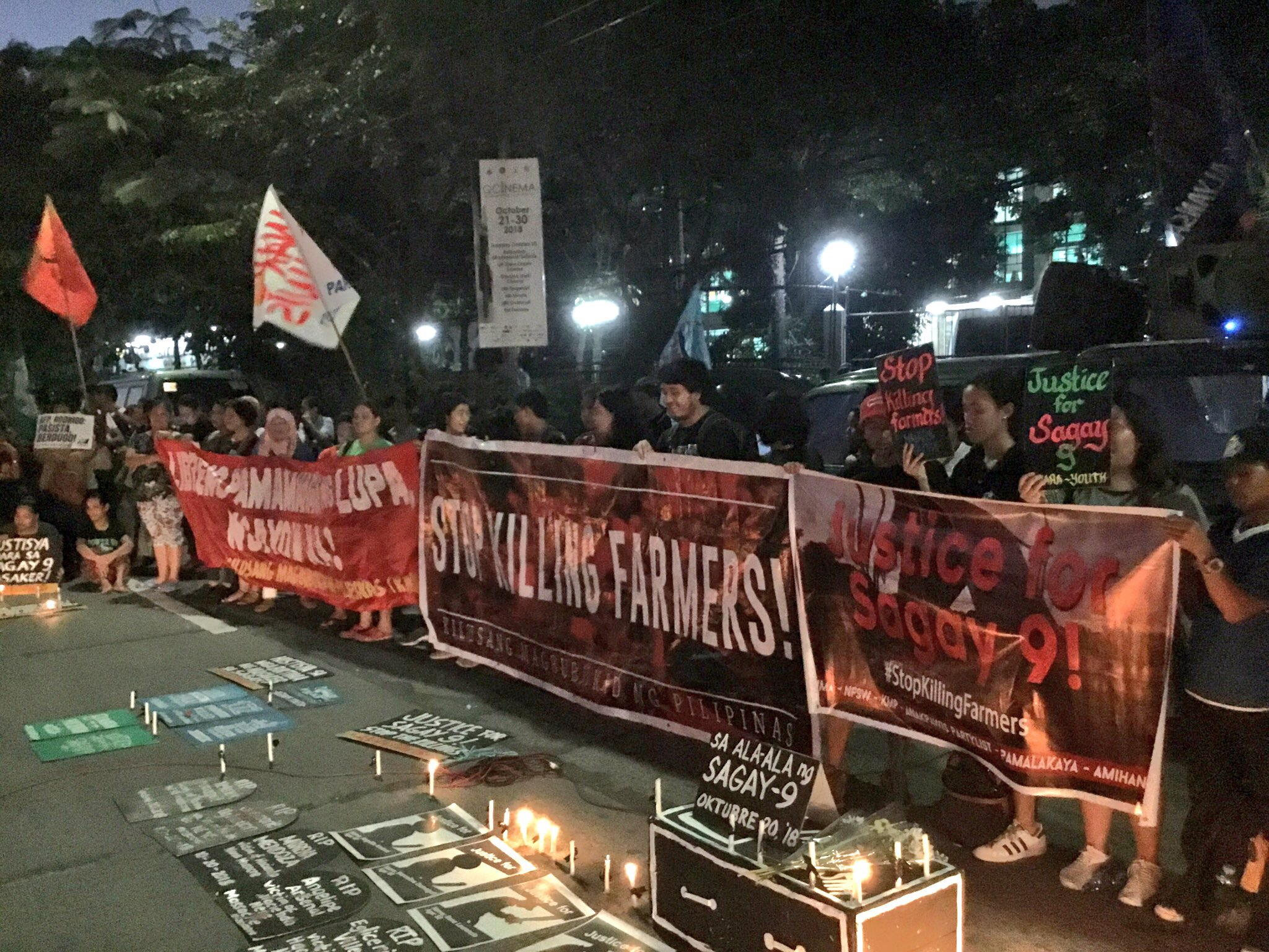 Mobilizationː Indignation regarding Sagay Massacre and killings of other farmers